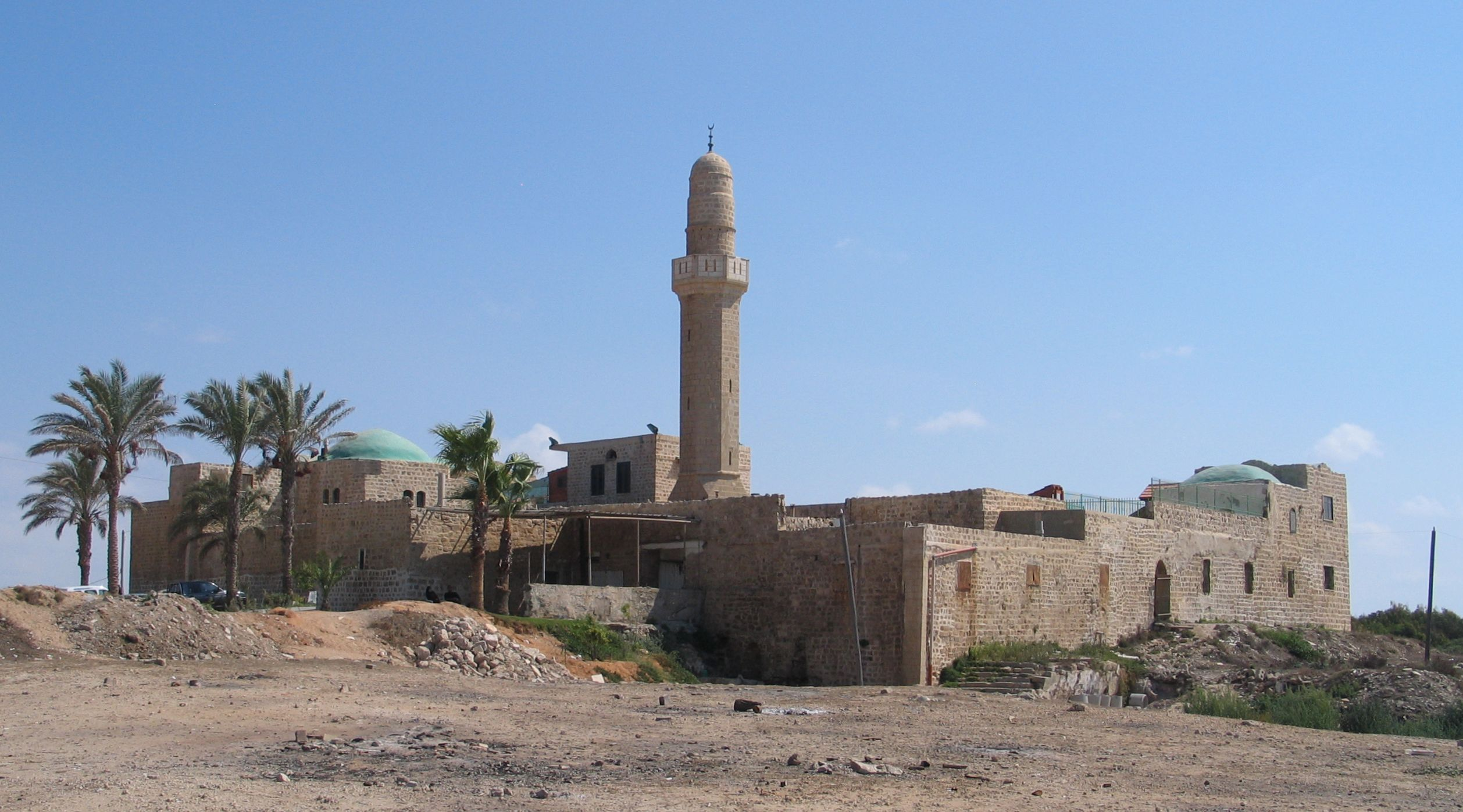 Sidna Ali Mosque, Herzlia.